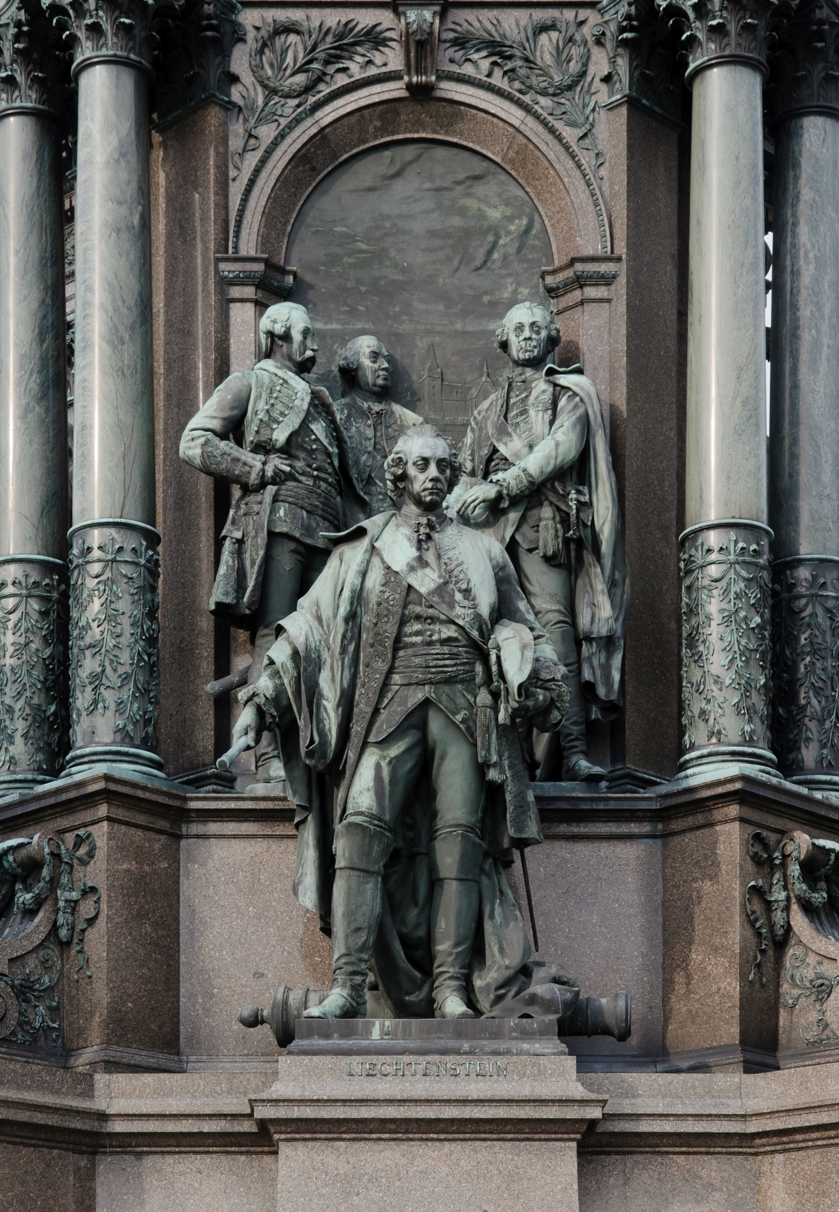 The statue of Joseph Wenzel I, Prince of Liechtenstein, Military section of the Maria Theresa monument at Maria Theresien-Platz, Vienna. Designed by the sculptor Kaspar von Zumbusch and the architect Carl Hasenauer. The monument was opened in 1888. In the background are statues of Franz Moritz Graf Lacy, Andreas Graf Hadik and Franz Leopold Graf Nadasdy. The castle Burg Wiener Neustadt can be also seen in the background bas-relief.